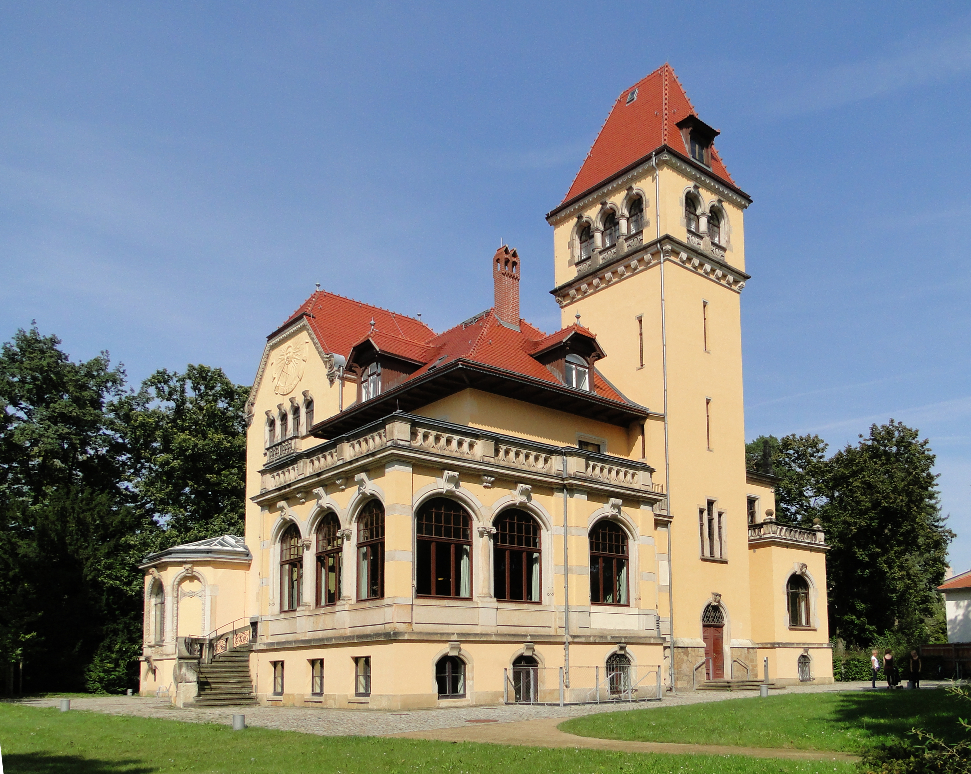 Rothermundt house at Dresden-Blasewitz (Saxonia, Germany), Mendelssohnallee 34; built 1896-1897; protected monument